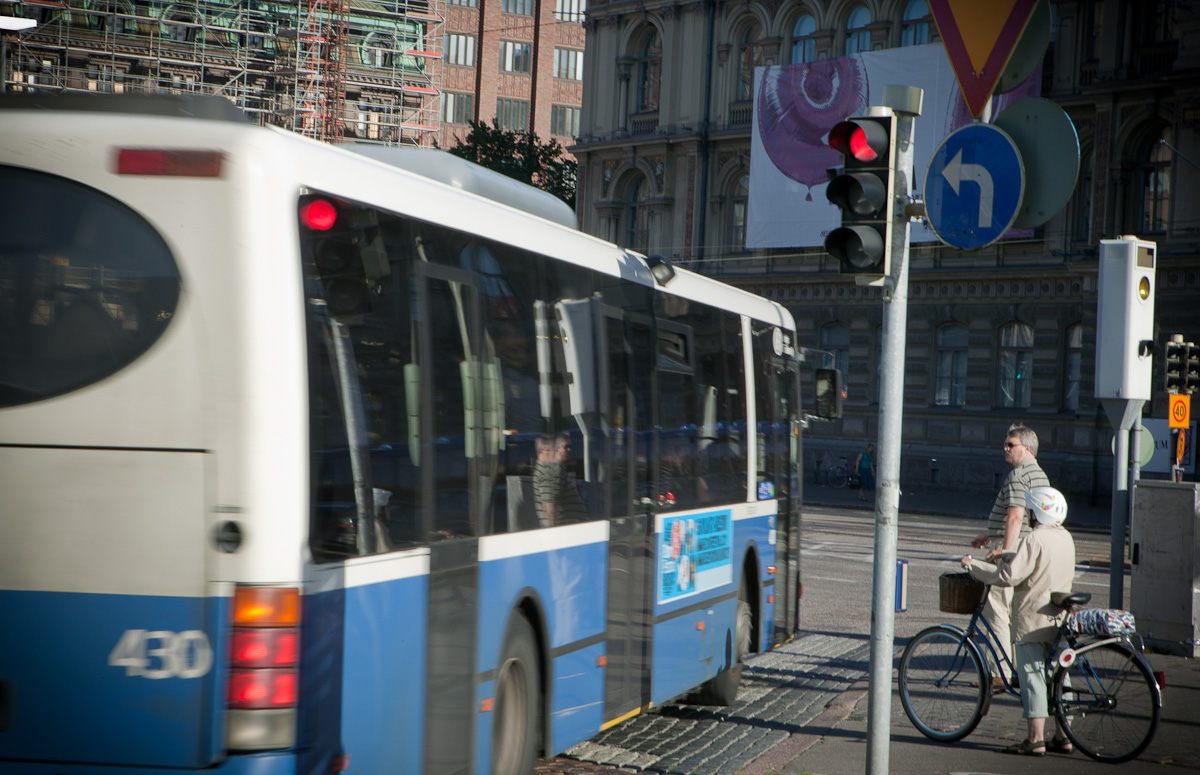 Bus driving red lights in Helsinki, Finland. Lahti Scala bus (#430) with Scania L94UB chassis, built 2004. Helsingin Bussiliikenne operator.